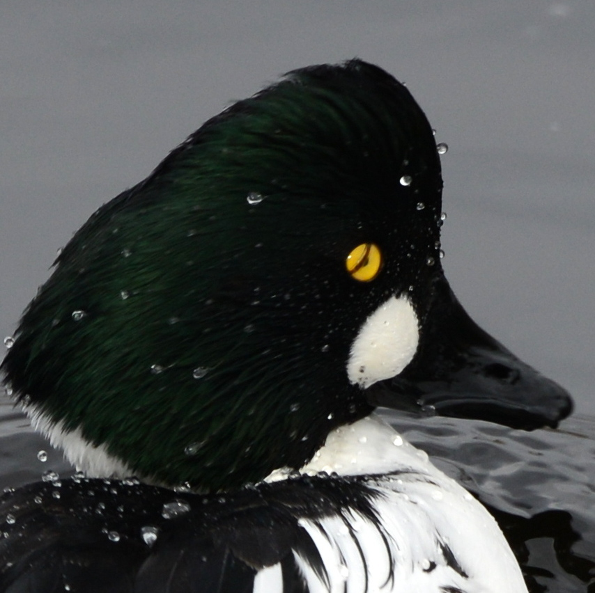 Common Goldeneye showing nictitating membrane - crop